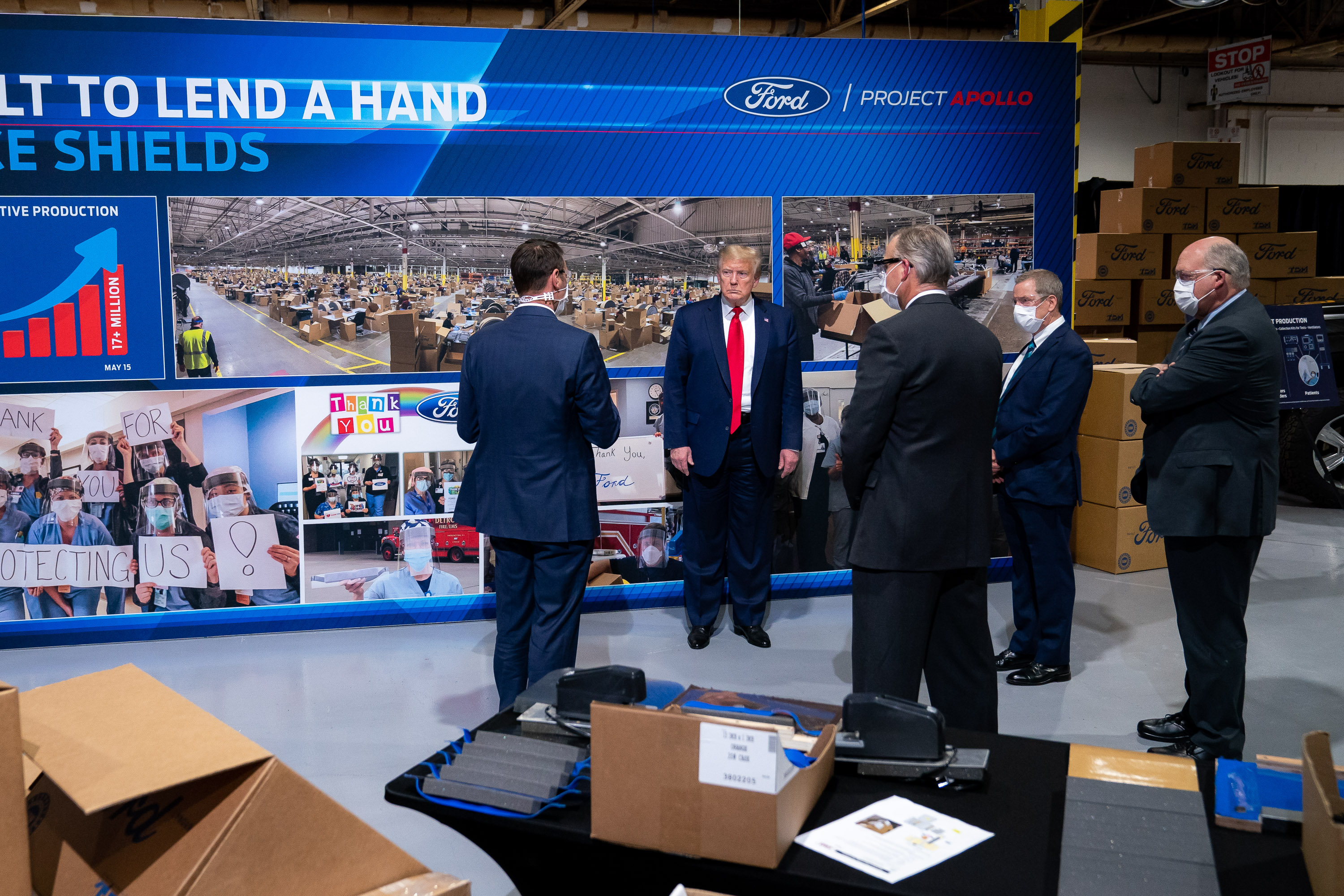 President Donald J. Trump participates in a tour of the Ford Rawsonville Components Plant Thursday, May 21, 2020, in Ypsilanti, Mich. (Official White House Photo by Tia Dufour)